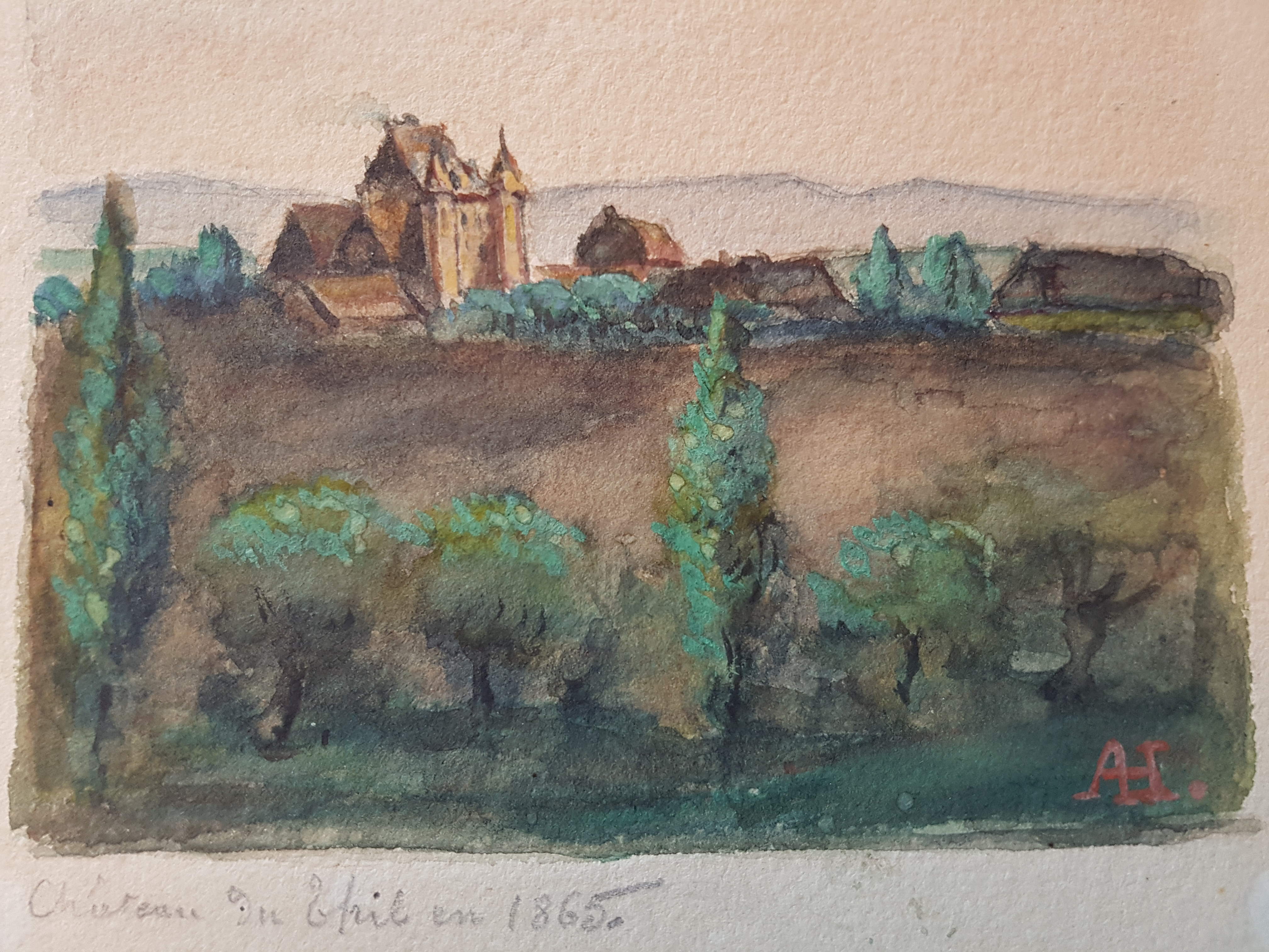 an old hand painting from 1865